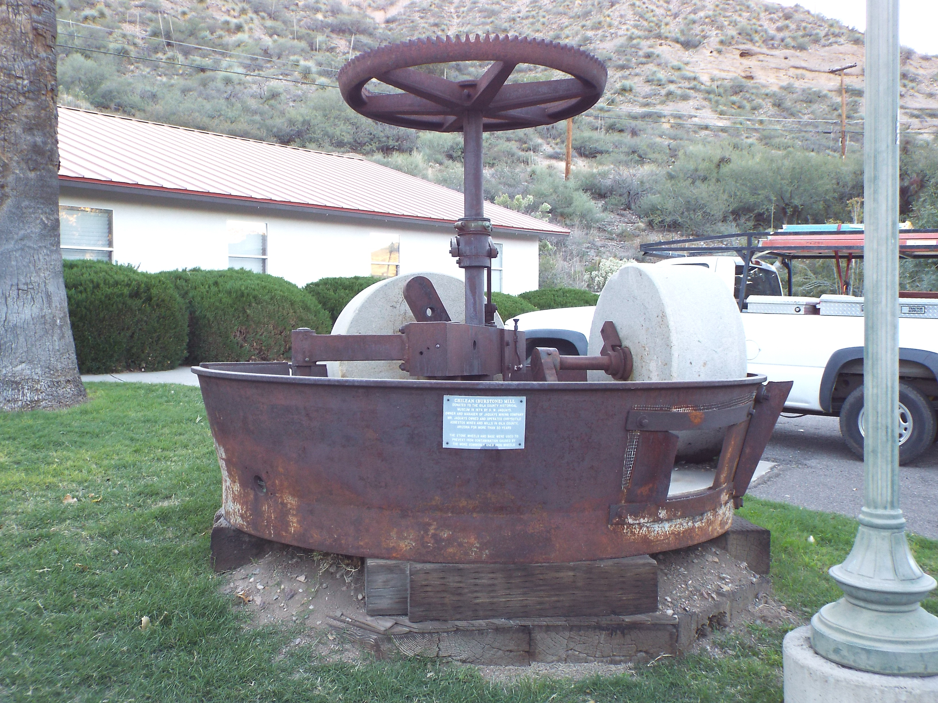 Globe-Chilean (Burrstone) Mill-1330 Broad Street -1900